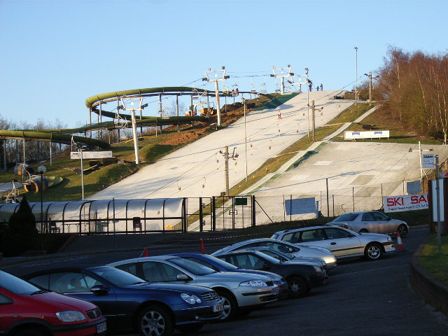 The dry ski slope, Bracknell Part of the John Nike Leisure Complex at Amen Corner.